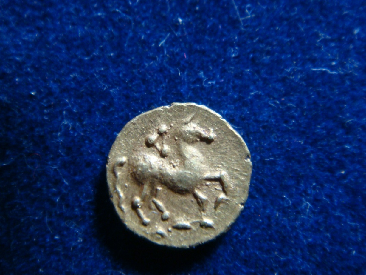 Celtic Coin 1/24 Stater Vindelici Revers Typ Janus 1